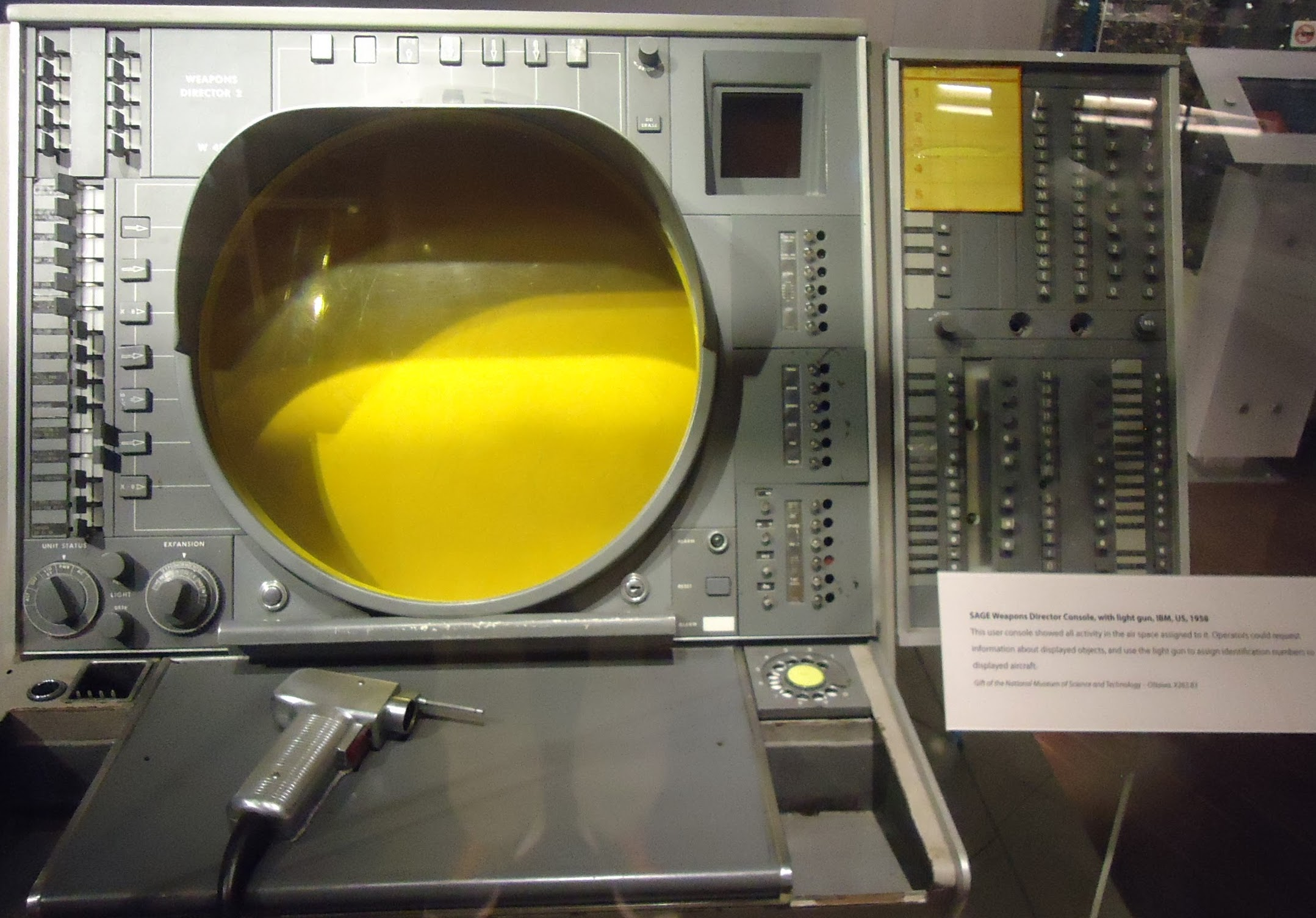 SAGE console and light gun, on display at the Computer History Museum, a museum established in 1996 in Mountain View, California, USA, dedicated to preserving and presenting the stories and artifacts of the information age, and exploring the computing revolution and its impact on society.